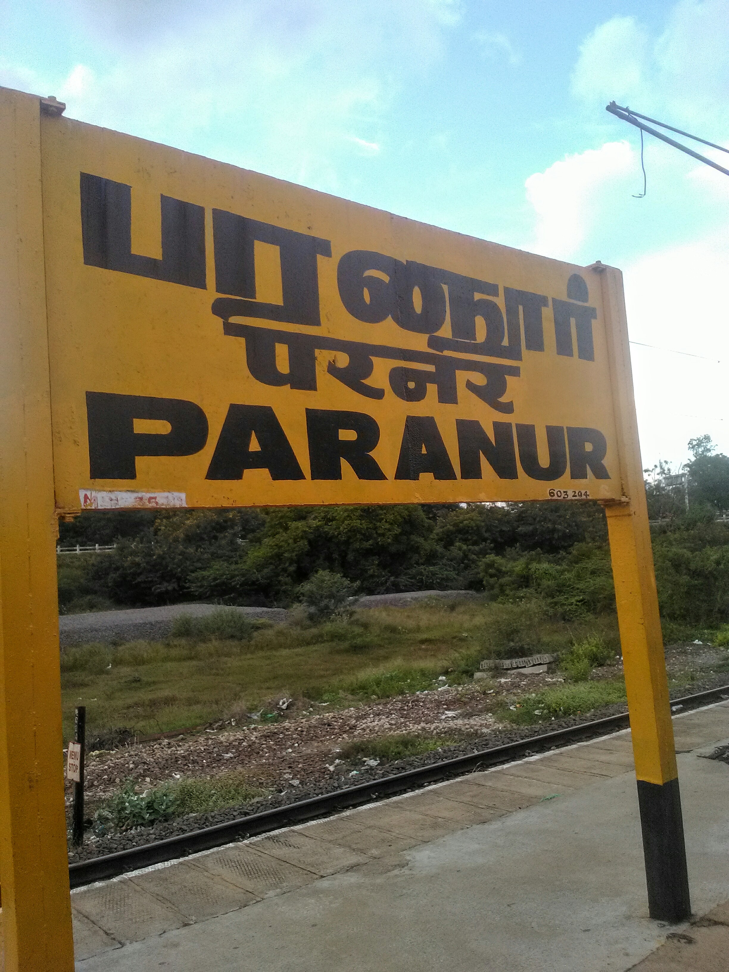 Paranur Railway Station ..